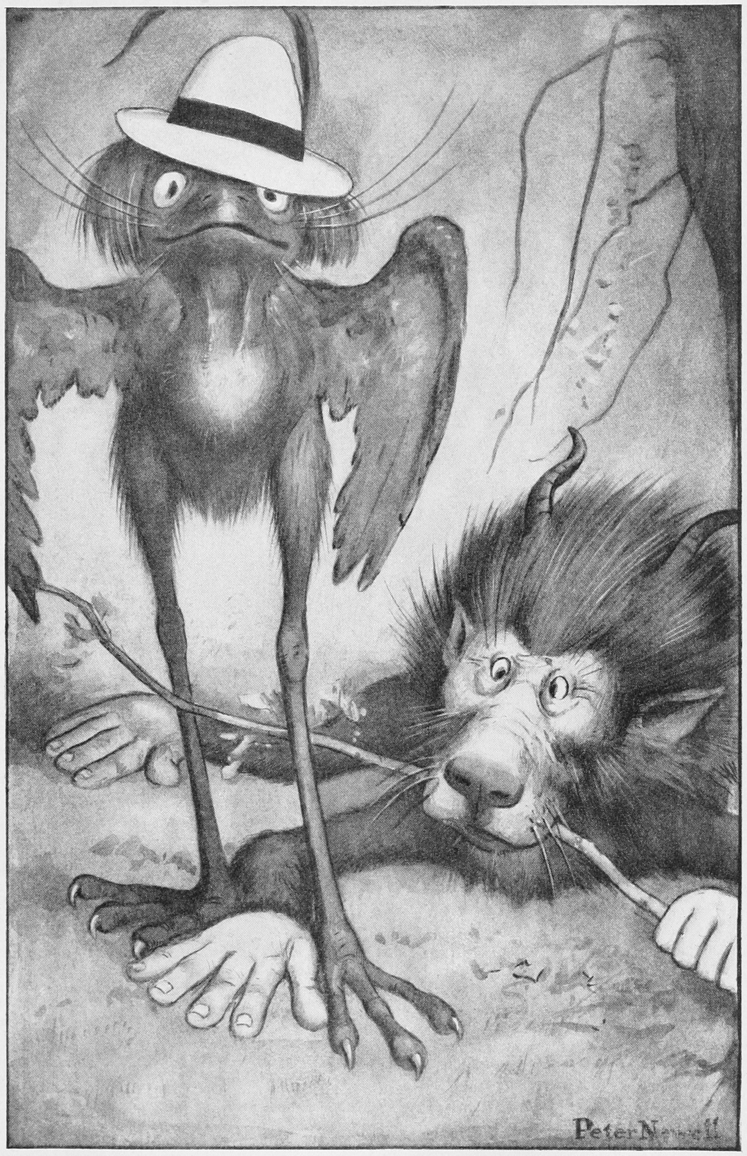 "'Beware the Jubjub bird, and shun // The frumious Bandersnatch!'". Illustration by Peter Newell to "Through the Looking-Glass and What Alice Found There", chapter "Looking-Glass House"